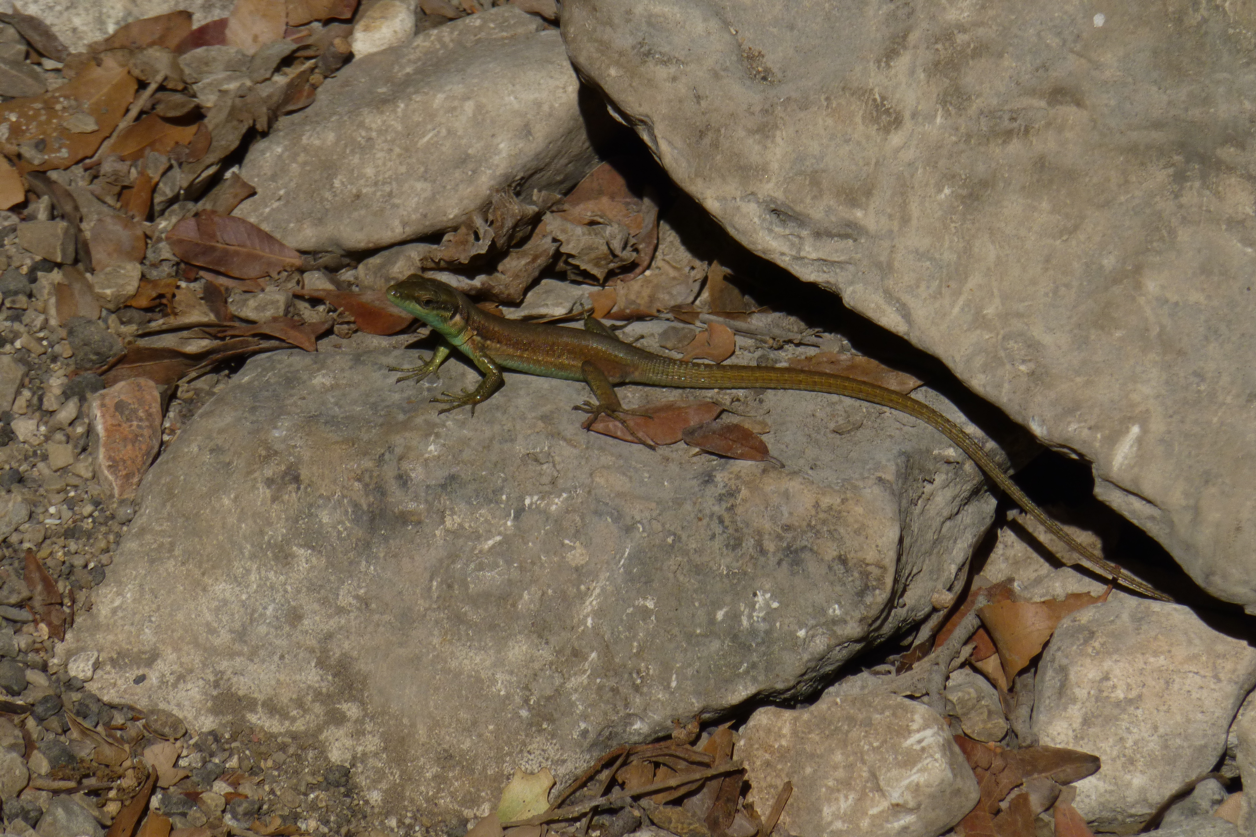 Mount Carmel